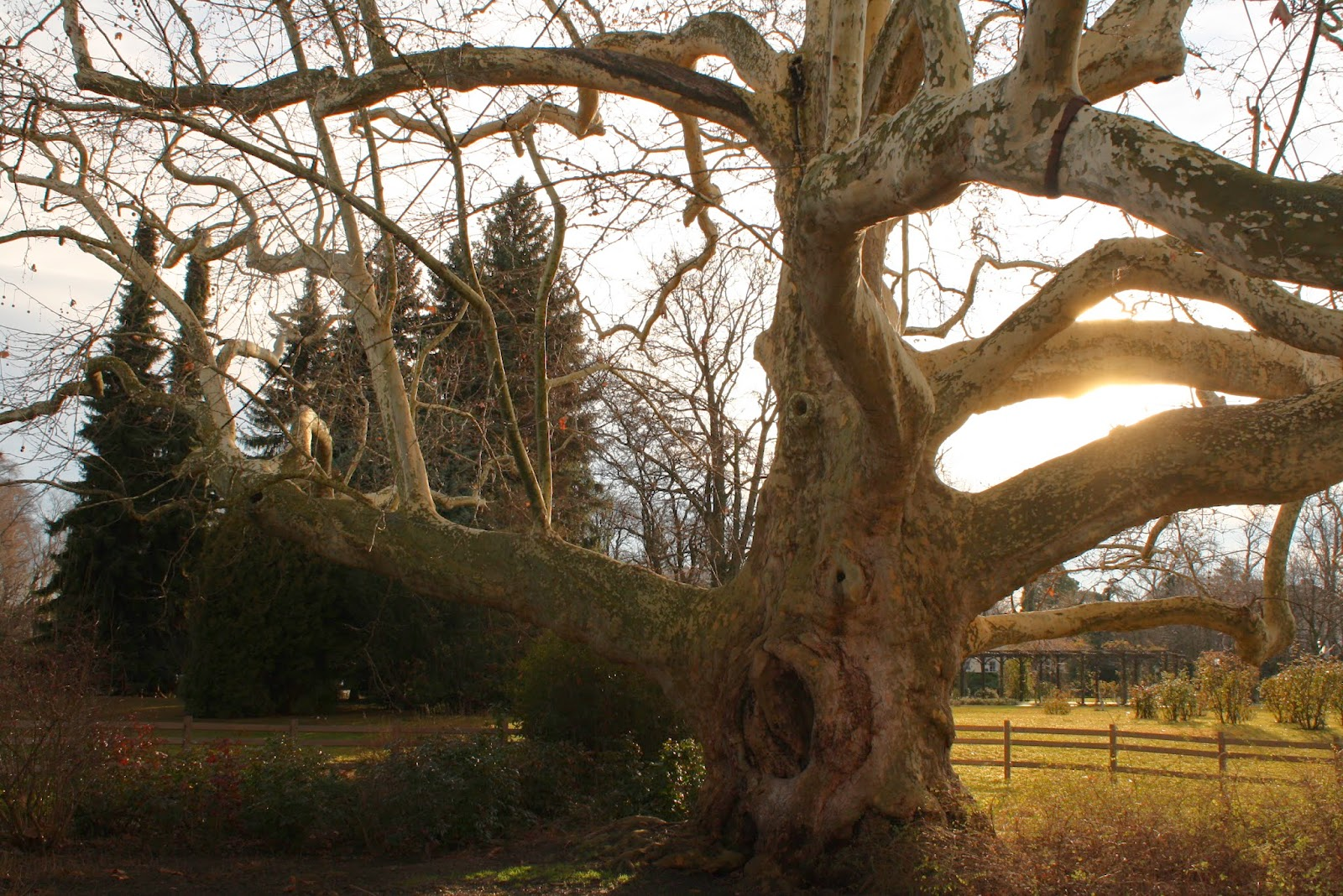 Ancient plane tree in Baden, Austria